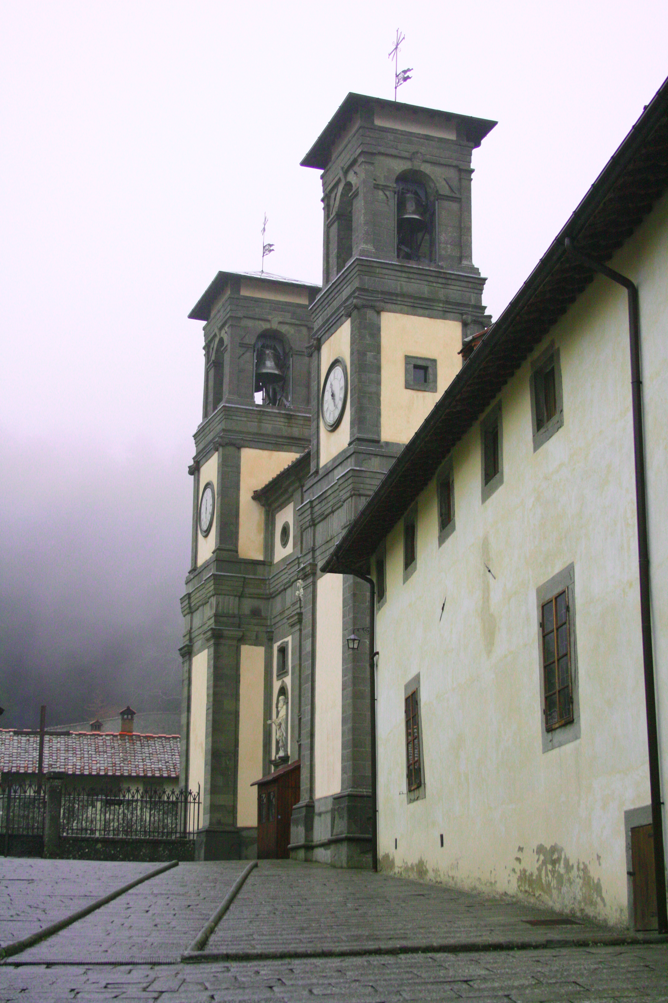 Eremo di Camaldoli